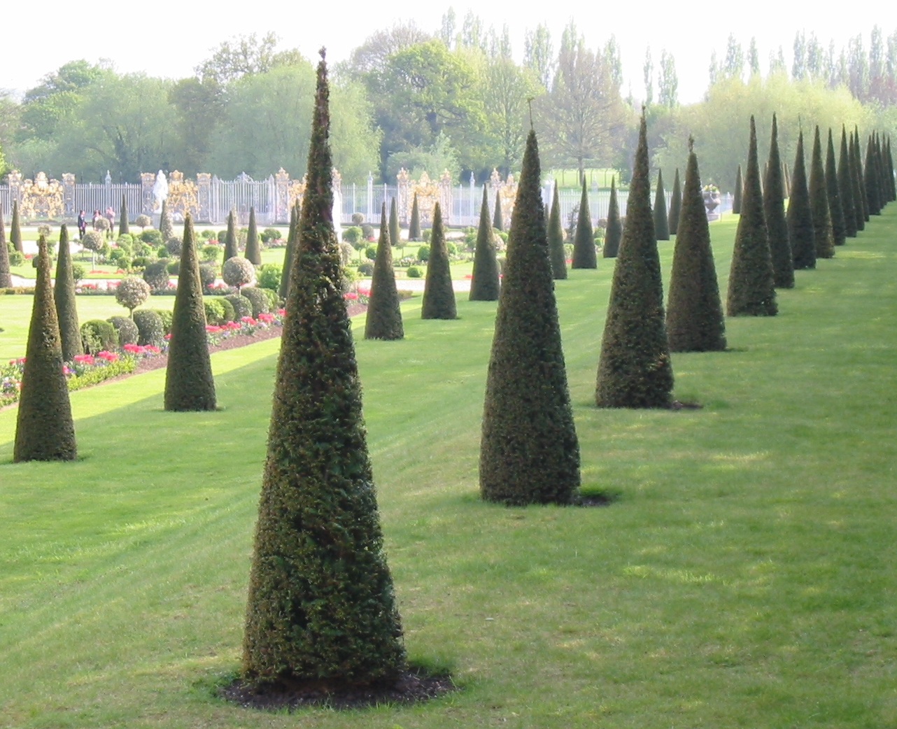 Hampton Court, London